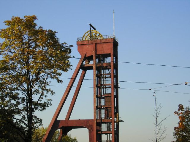 Head frame of KWK Polska Wirek coal mine, Prezydent shaft; in Chorzów, Silesia, Poland [2]